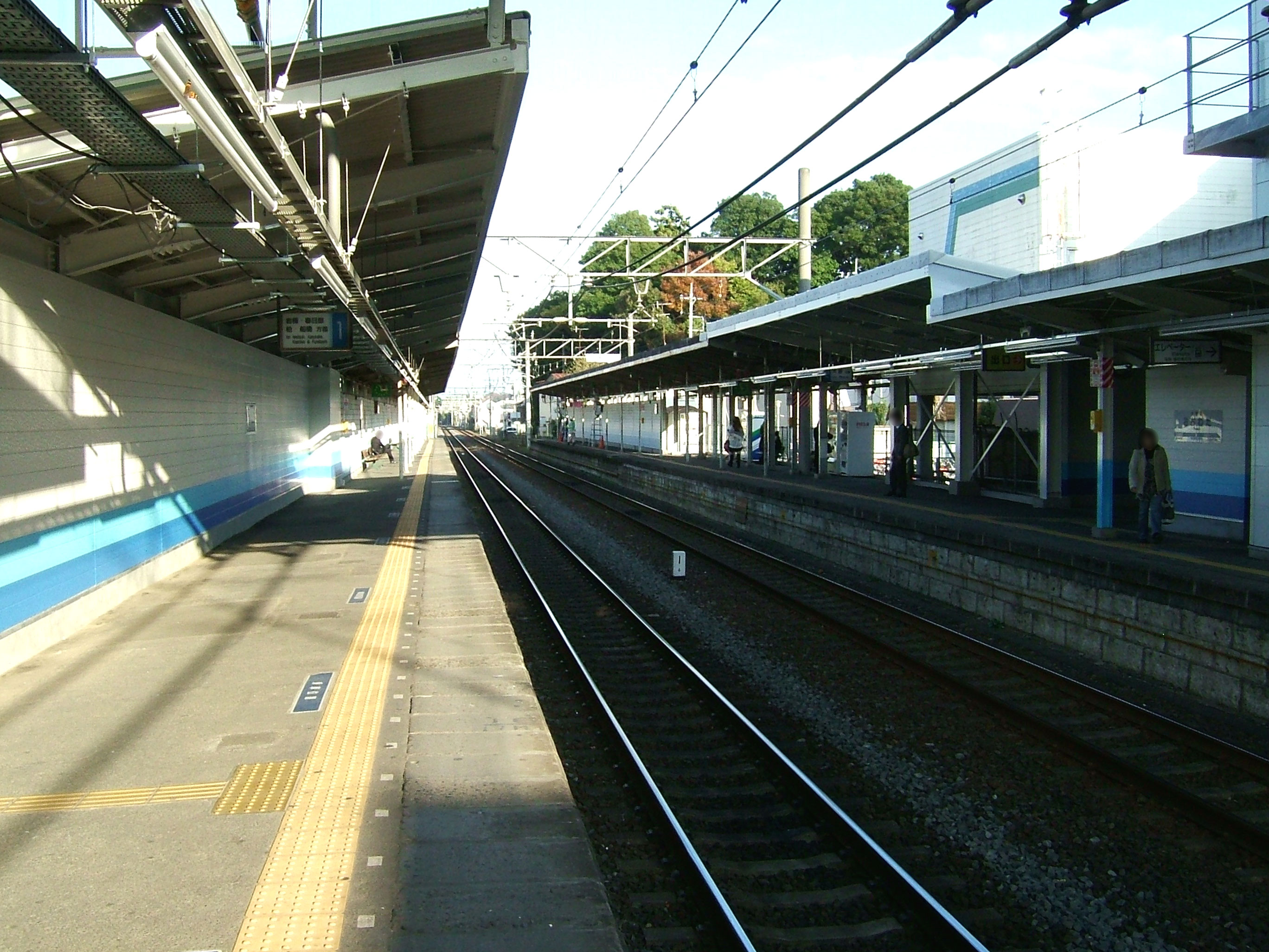 Ōwada Station platform (Tōbu Railway Noda Line)